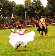 Marinera con Caballo Peruano de Paso